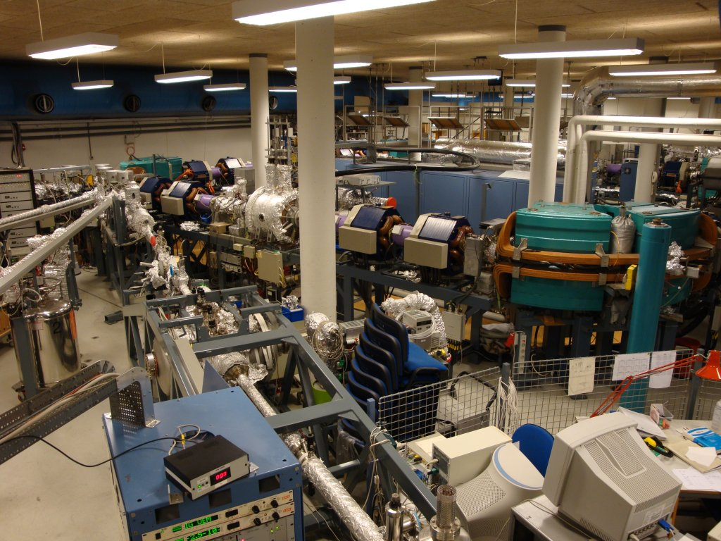 The ASTRID storage ring in Aarhus, Denmark (2010).